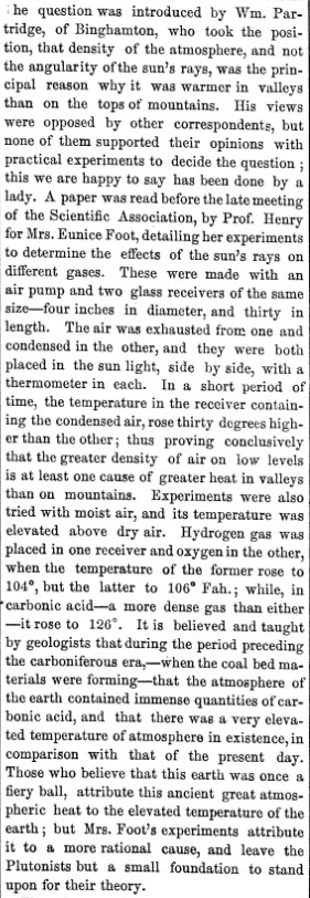 A column in the Scientific American described in 1856 Eunice Newton Foote's temperature experiments with gases, and found that carbonic acid (carbon dioxide / CO2) caused the greatest warming effect.